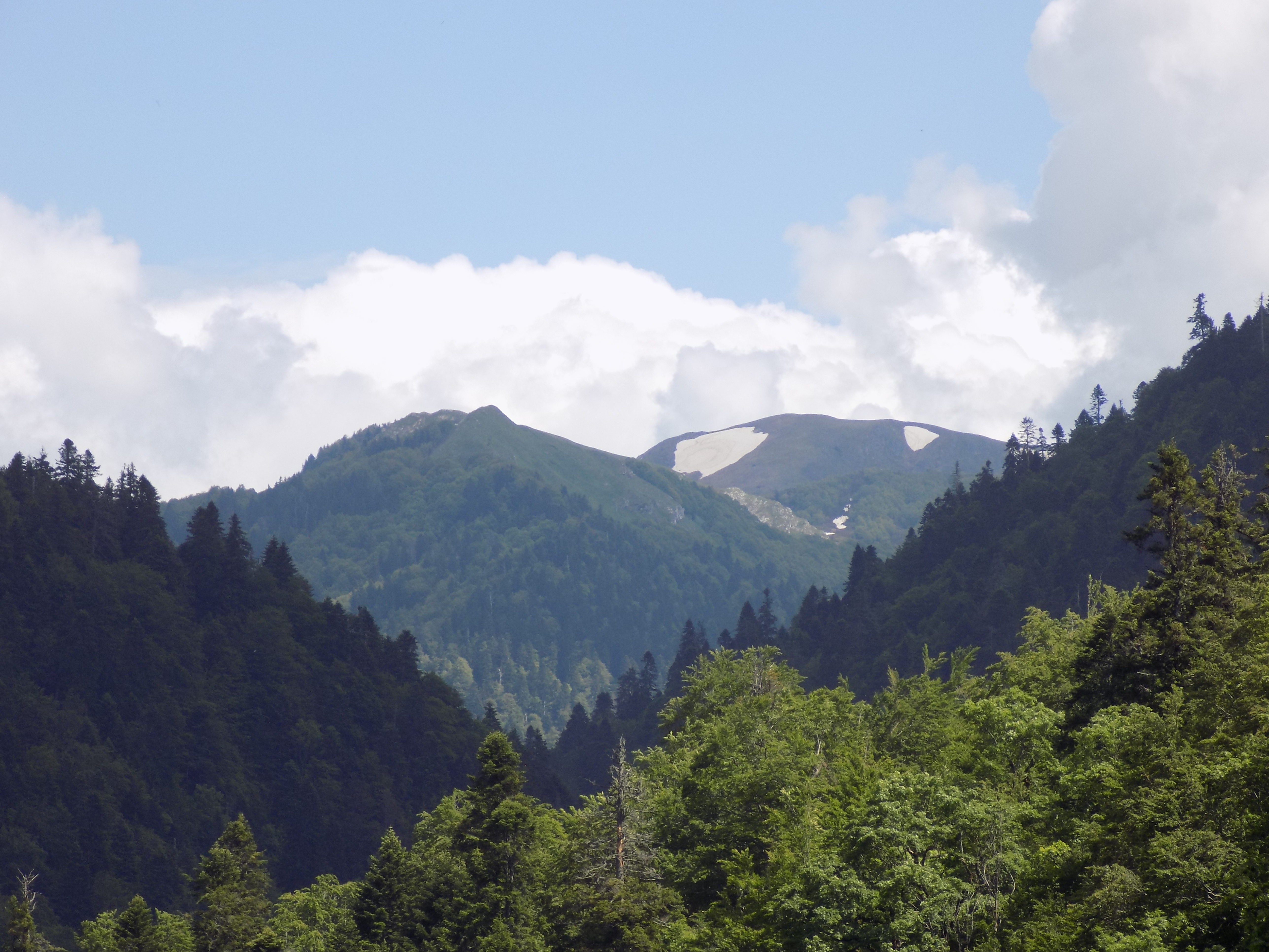 Biogradska Gora National park, the oldest protected natural resource in Montenegro